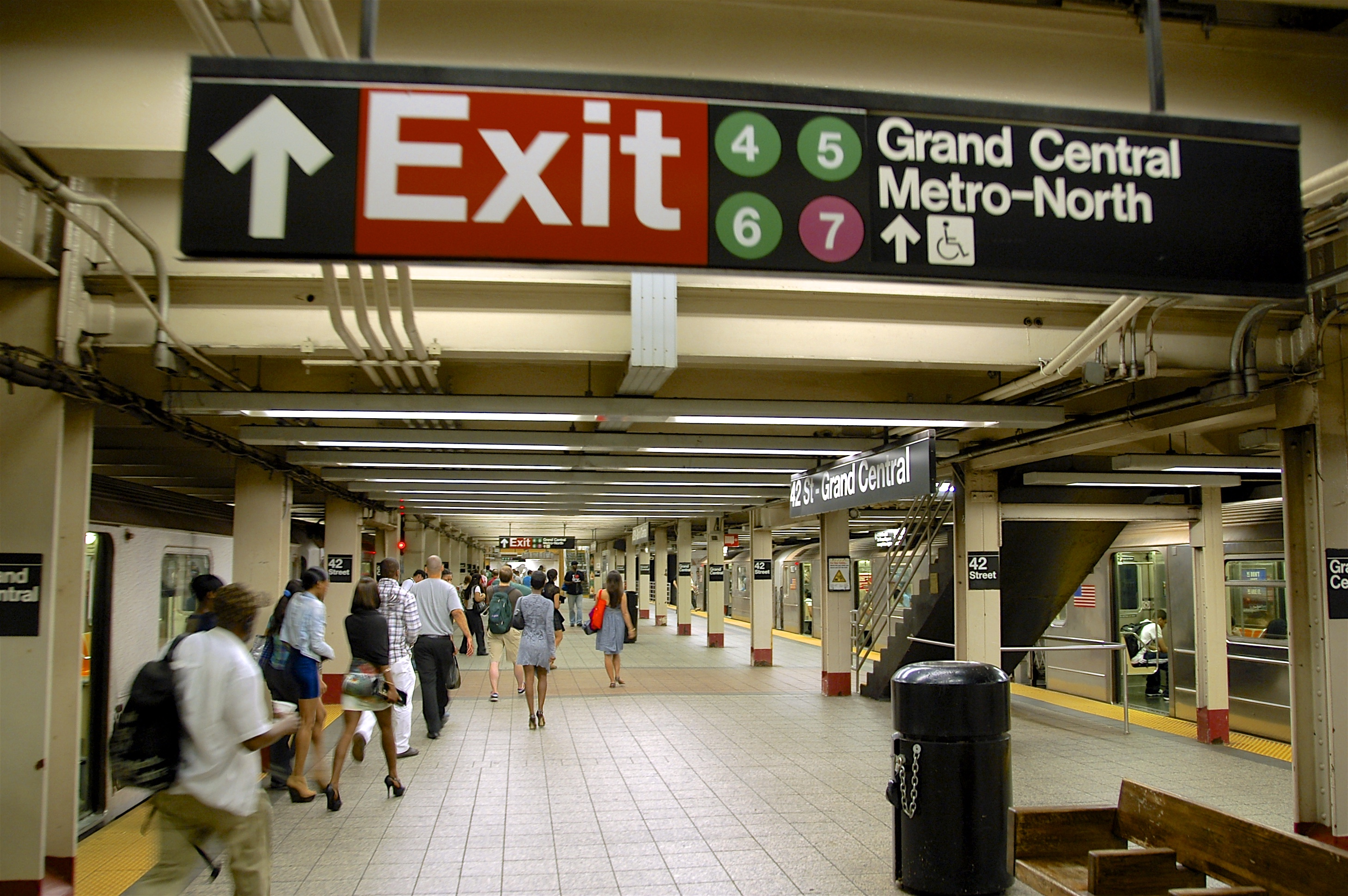 Passengers exit a 42nd Street shuttle at Grand Central–42nd Street station in Manhattan, New York City, June 2010.